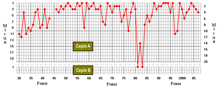 Ukrainian chart of the finishing places of the Italian football team A.C. Milan.